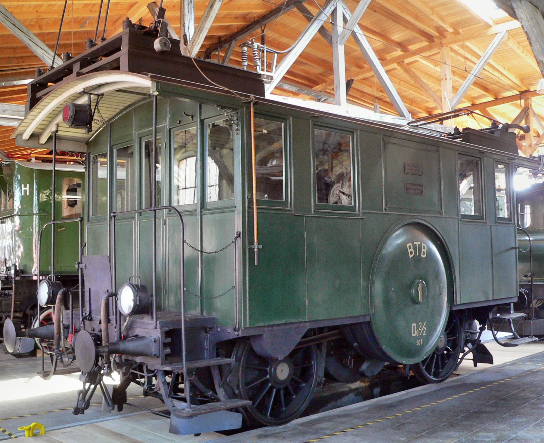 Locomotive De 2/2 in the Lokwelt Freilassing, Germany. Built 1899